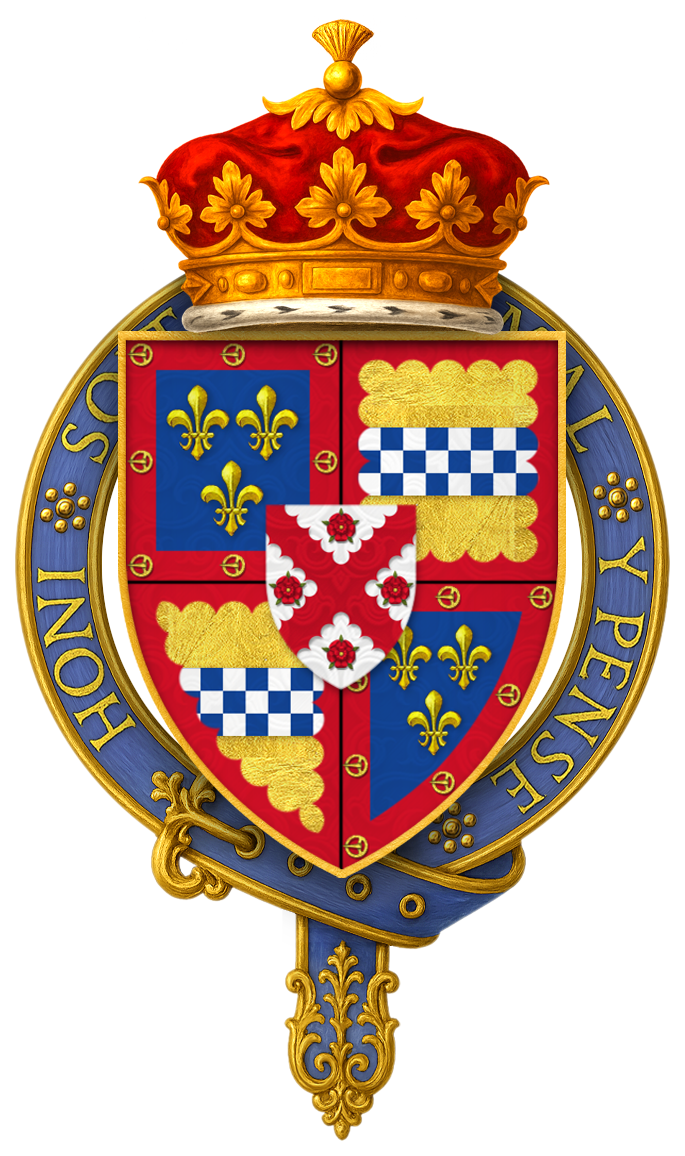 Coat of arms of Charles Stewart, 3rd Duke of Richmond, 6th Duke of Lennox, KG